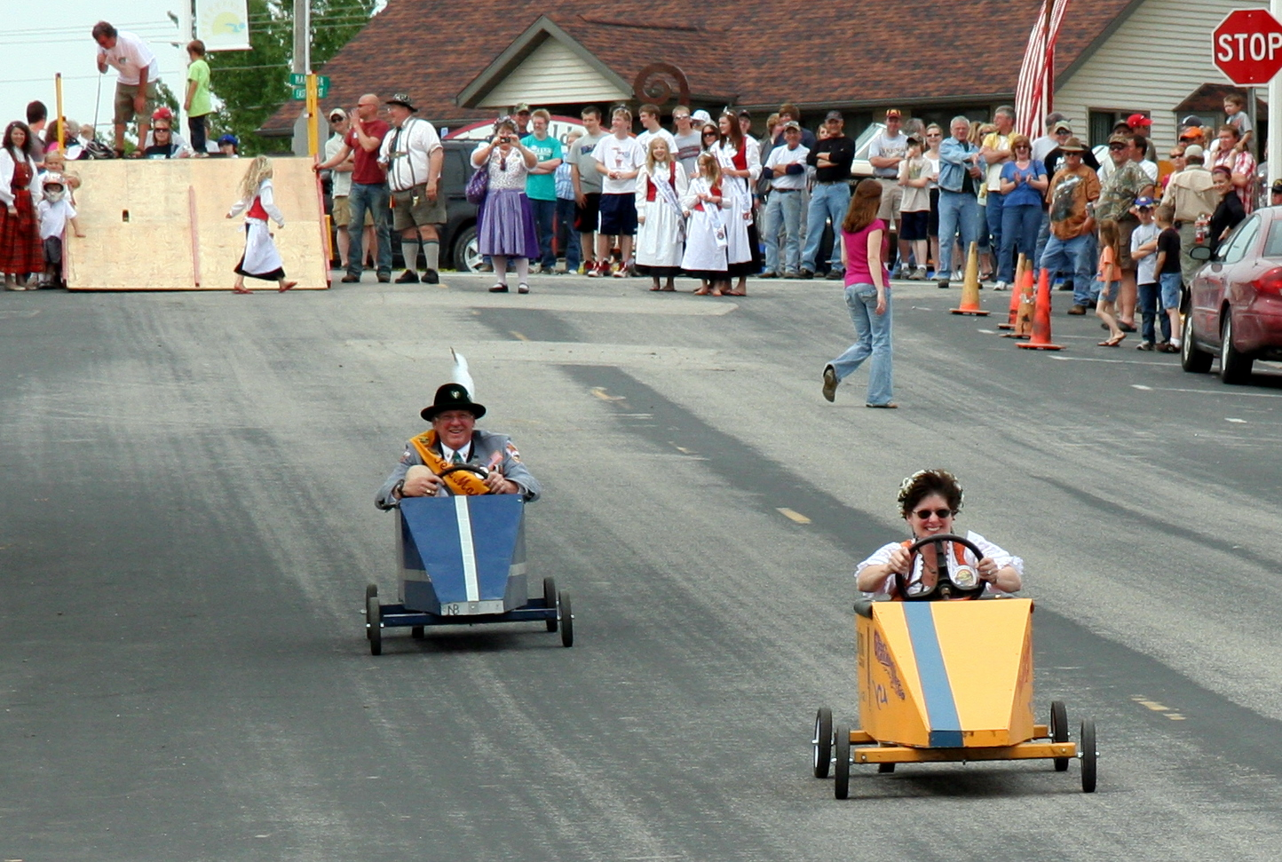 A man and a woman in a soapbox race held on a public street as part of a syttende mai festival in Spring Grove, Minnesota